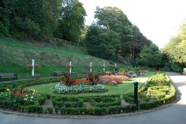 Italian Gardens at Saltburn; taken on a sunny day situated just before the woodland centre.